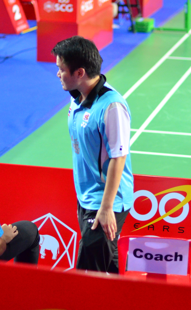 Patapol Ngernsrisuk